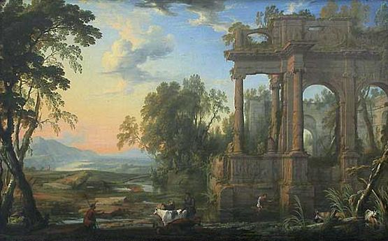 Landscape by the french painter Pierre Patel